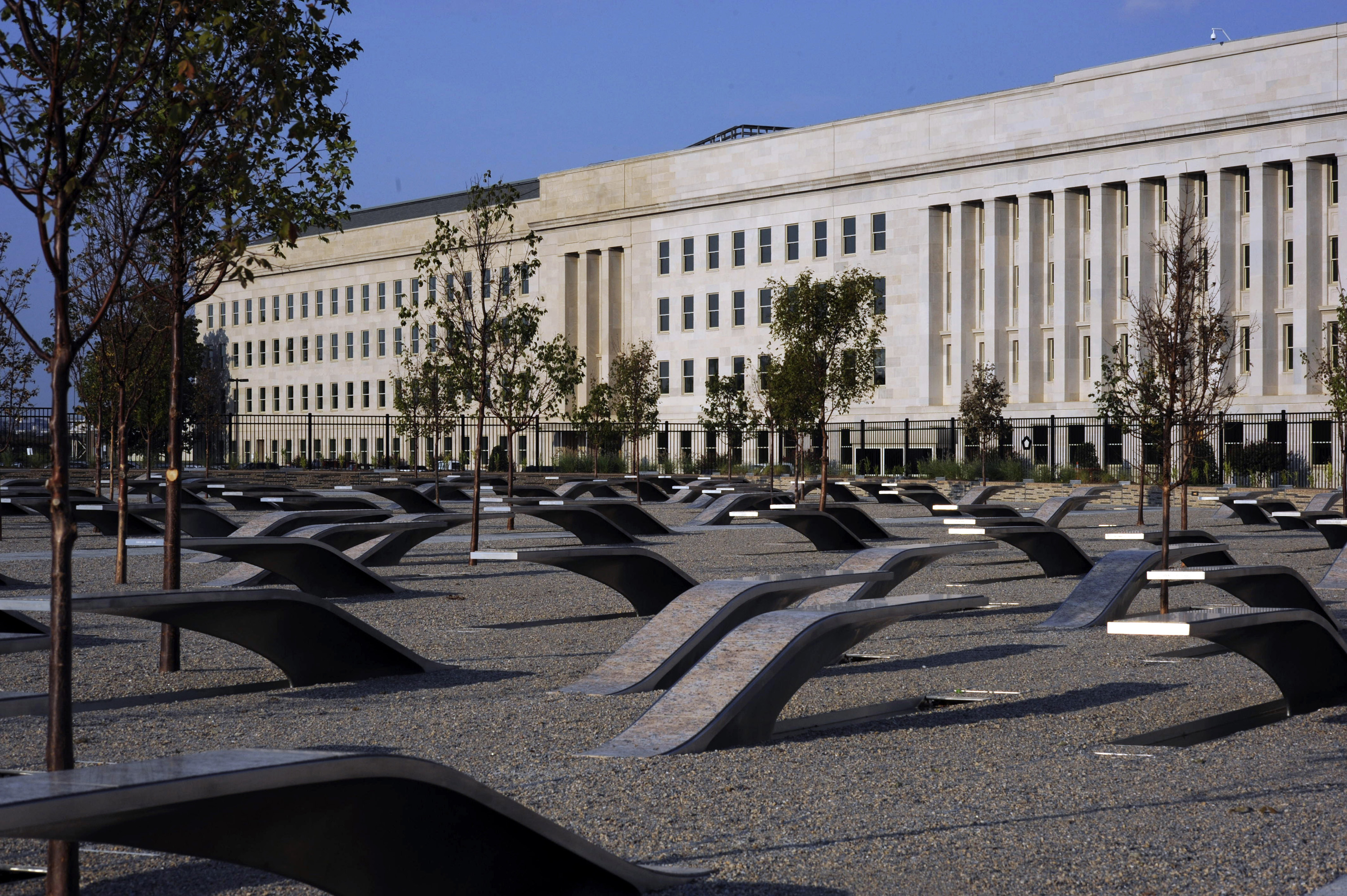 WASHINGTON (Sept. 4, 2008) The Pentagon Memorial honoring the 184 people killed at the Pentagon and on American Airlines flight 77, which was flown into the building during the Sept. 11, 2001 terrorist attacks, will be dedicated at a ceremony on Thursday, Sept. 11 2008. The Pentagon Memorial will be the first official monument to the victims of the terrorist attacks seven years ago. U.S. Navy Photo by Mass Communication Specialist 1st Class Brien Aho (Released)